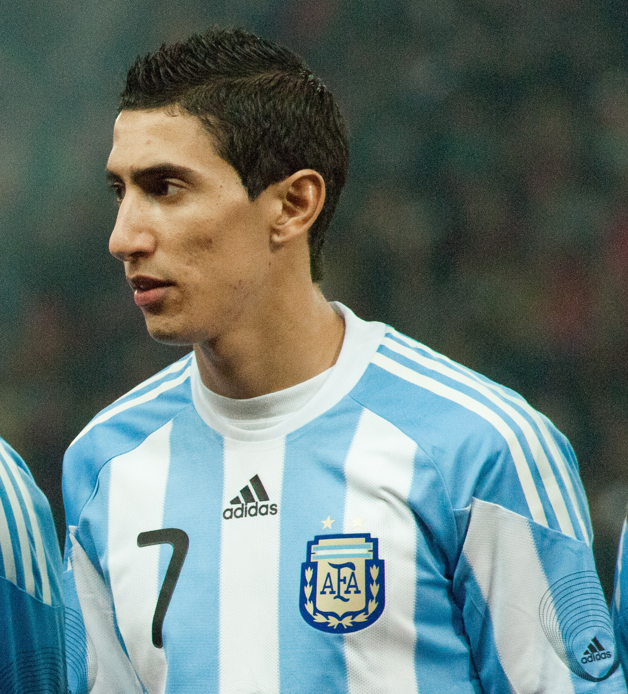 Angel di Maria